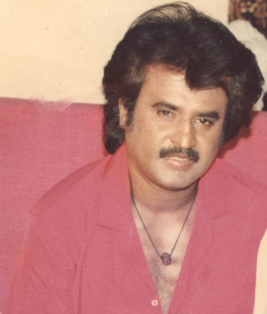 Actor Rajinikanth as seen in 1989 while shooting for the Tamil film titled 'Raja Chinna Roja'.